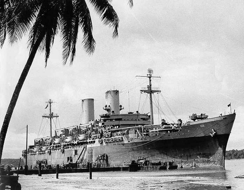 The U.S. Navy troop transport USS General William Mitchell (AP-114) moored at Pavuvu, Russell Islands, in November 1944, while embarking 3,500 members of the U.S. 1st Marine Division, for return to the United States.